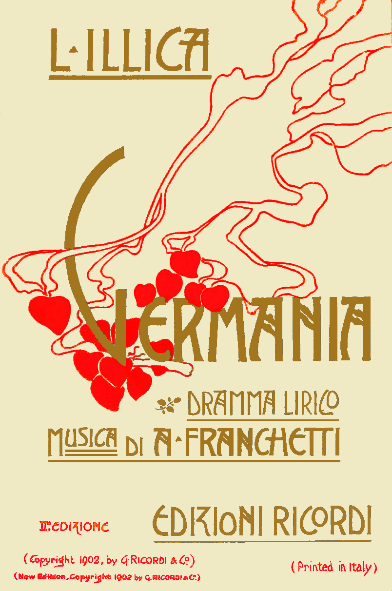 Franchetti - Germania - title page of the libretto, Milan 1902